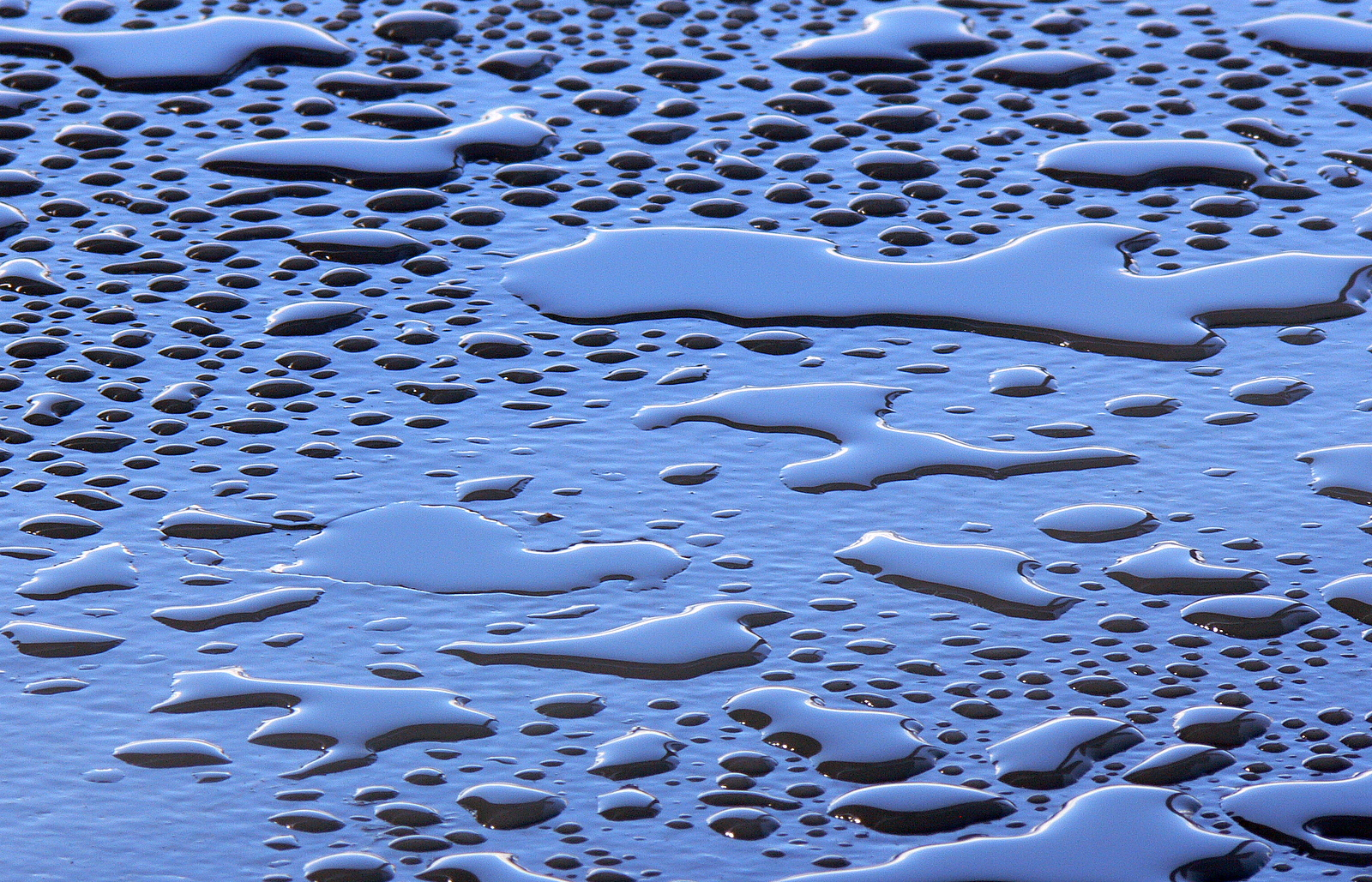 The image was personally taken by me in October 2006. Wars 20:38, 16 October 2006 (UTC)